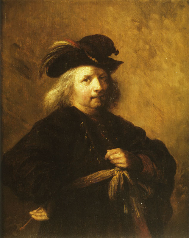 Paulus Lesire, Self-Portrait, 35.5 x 28 cm, Oil on panel, Location unknown.